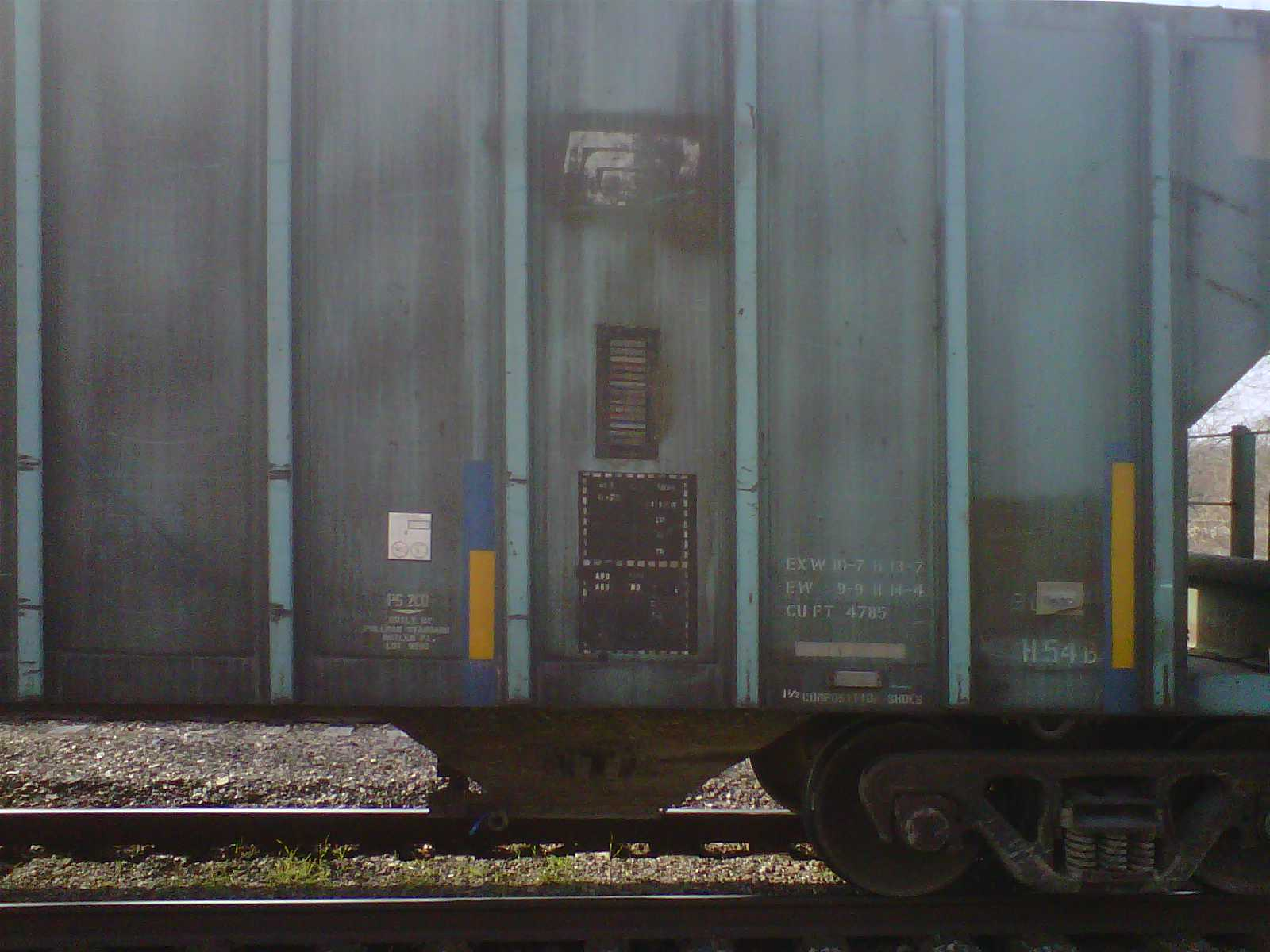 Automatic Car Identification plate on the side of a hopper car.